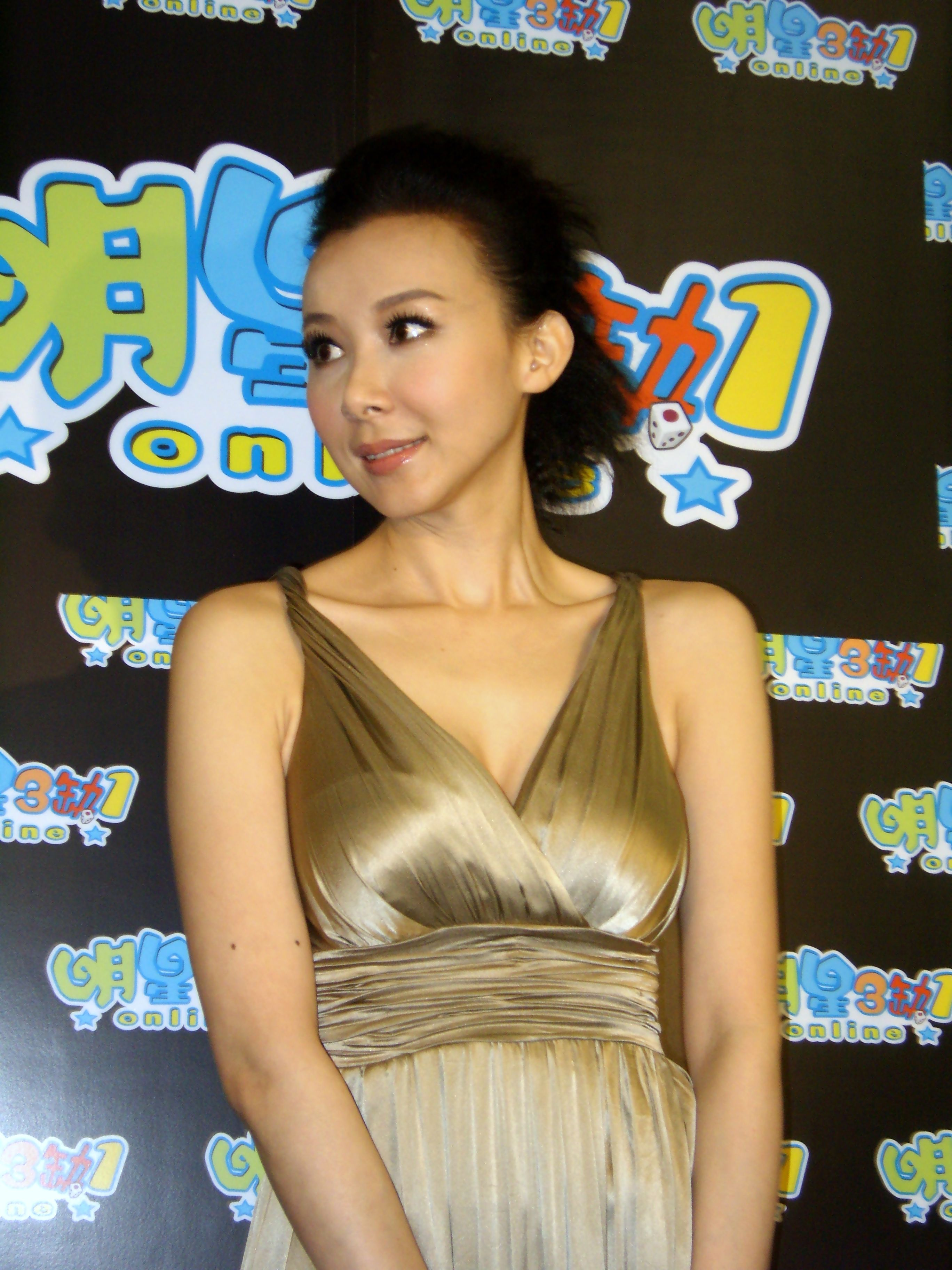 2008 Taipei Game Show: Stephanie Siao at IGS booth.